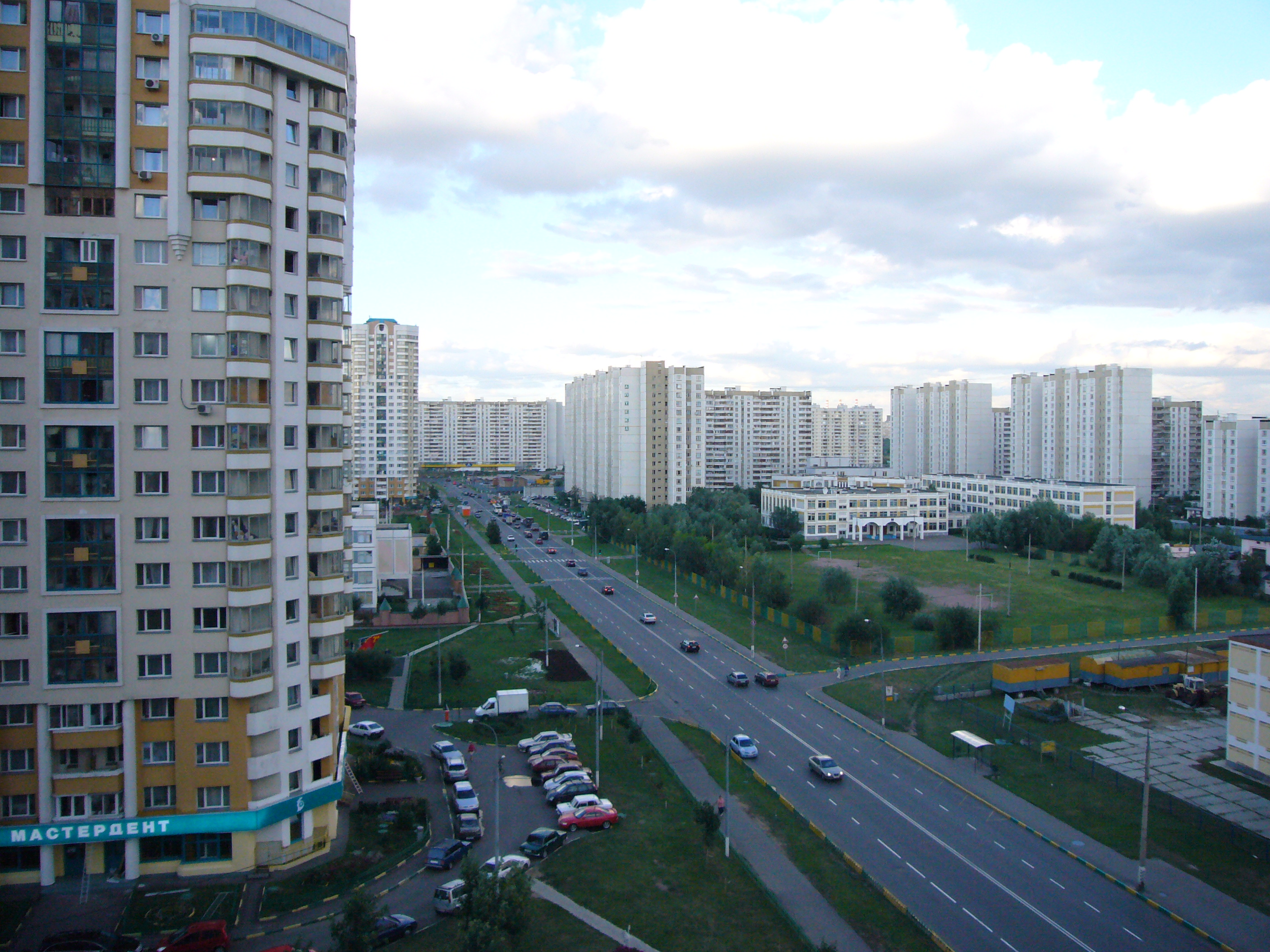 View of Brateyevskaya Street, Brateyevo District, Moscow, Russia.